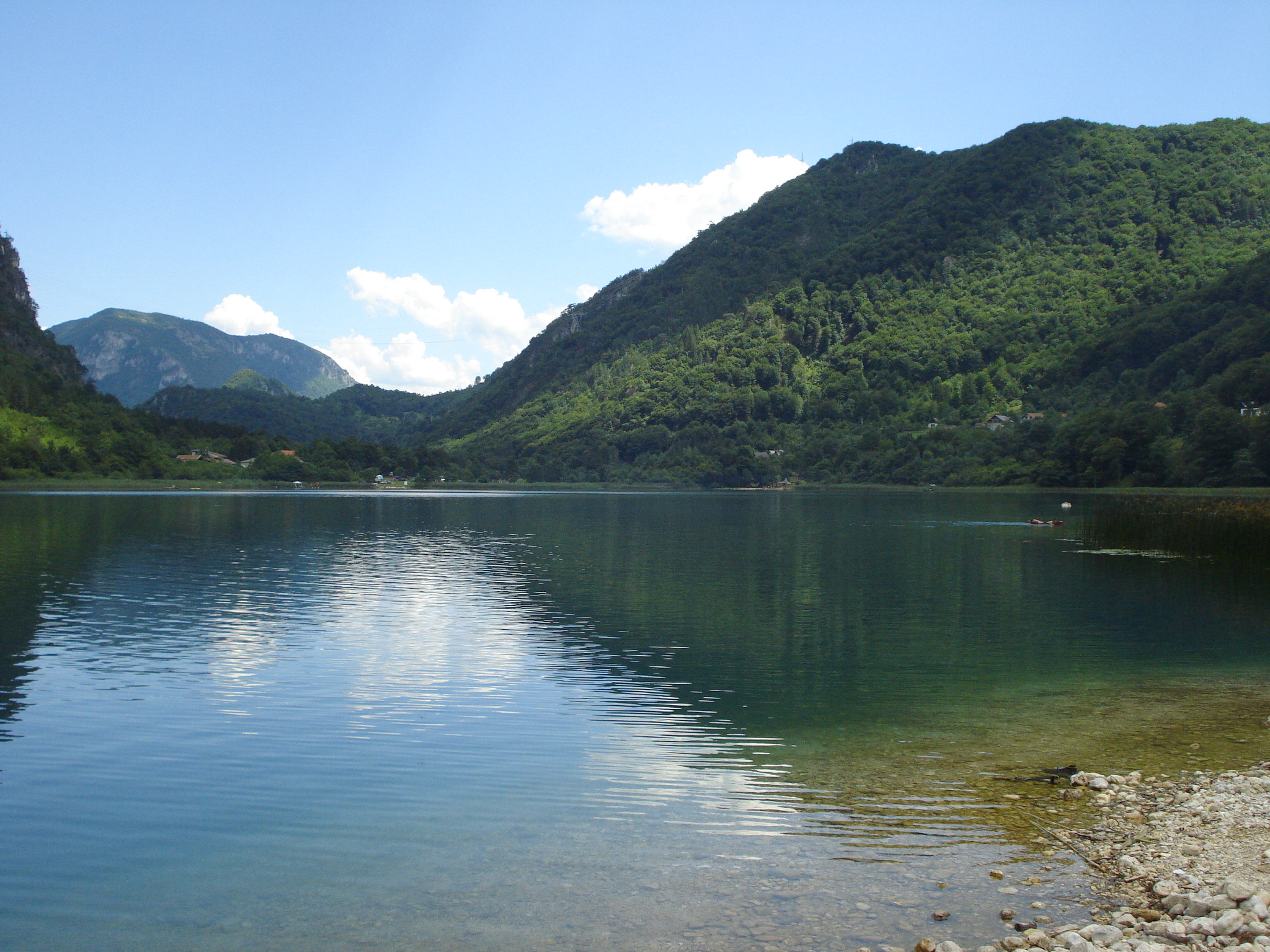 Boracko Lake near town of Konjic (Bosnia and Herzegovina)